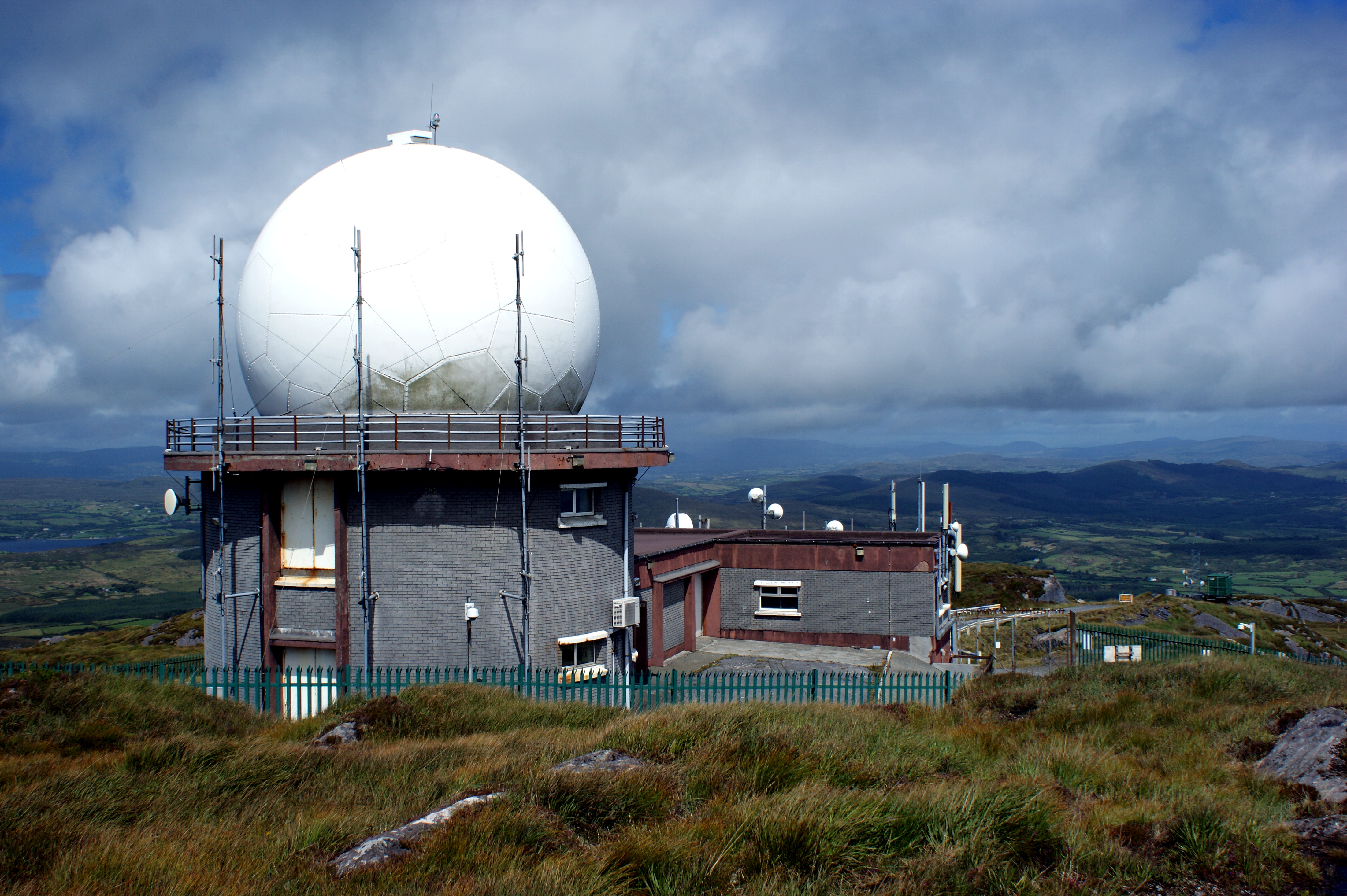 Radar dome (radome) on Mount Gabriel in County Cork, Ireland